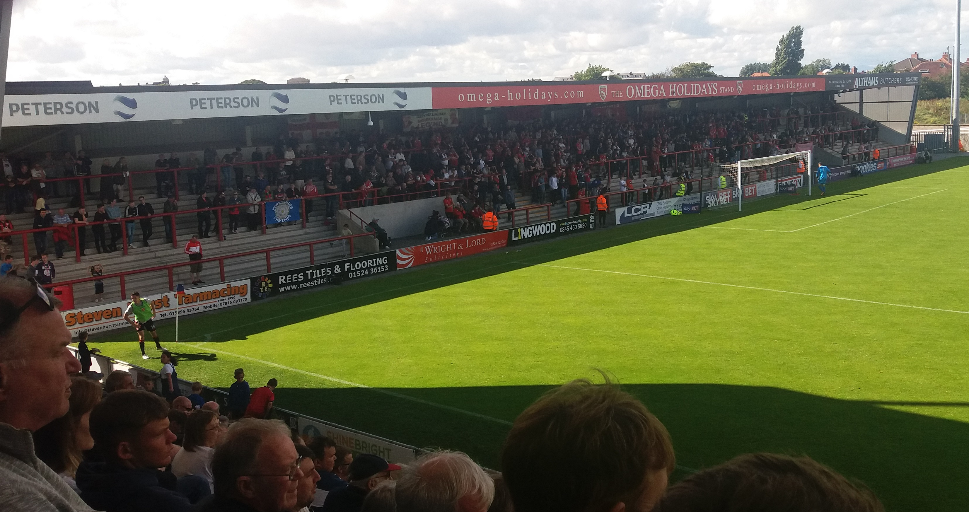 Globe Arena Omega Holidays stand